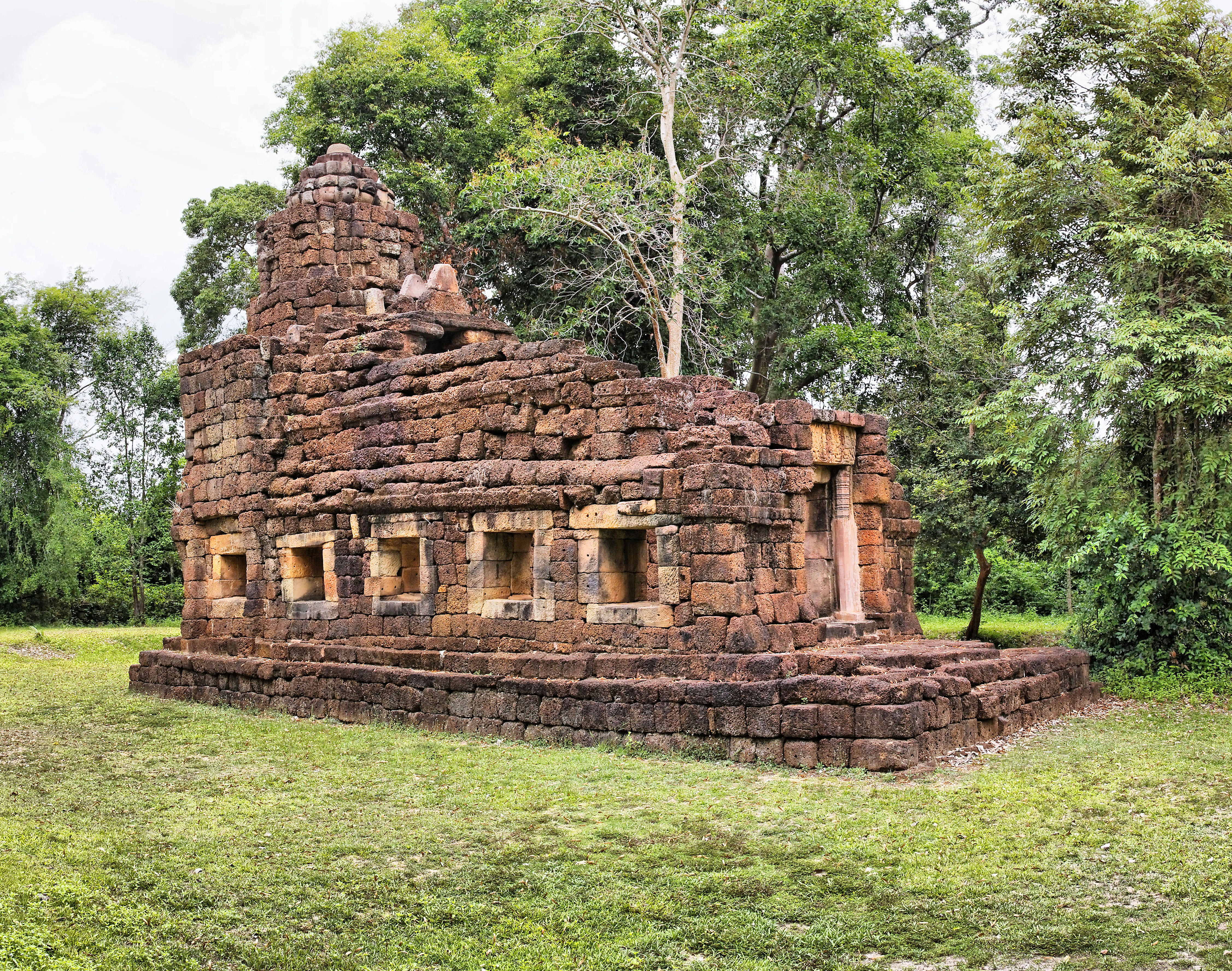 Prasat Ta Muen, Thailand